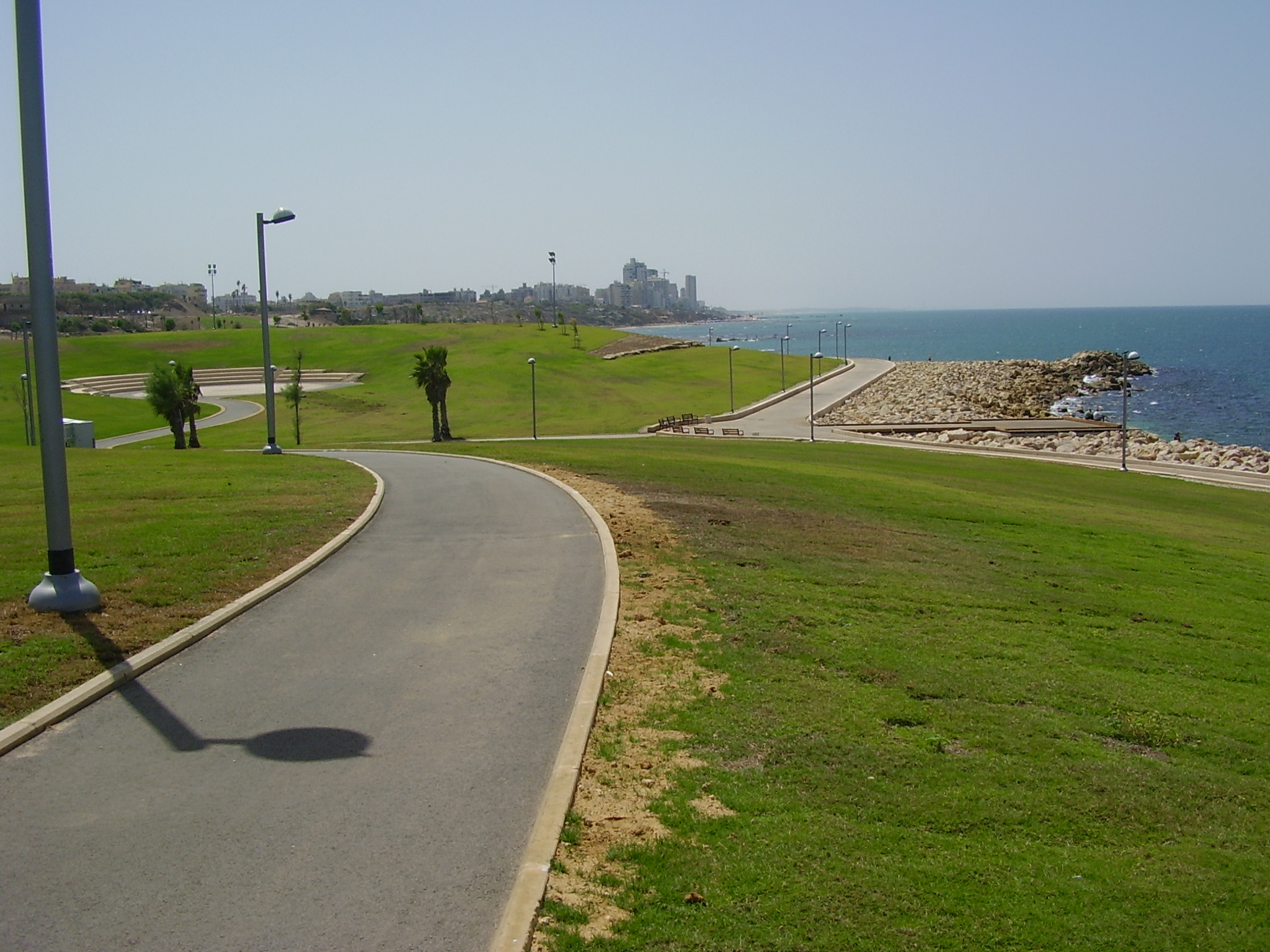 jaffa slope park פארק מדרון יפו